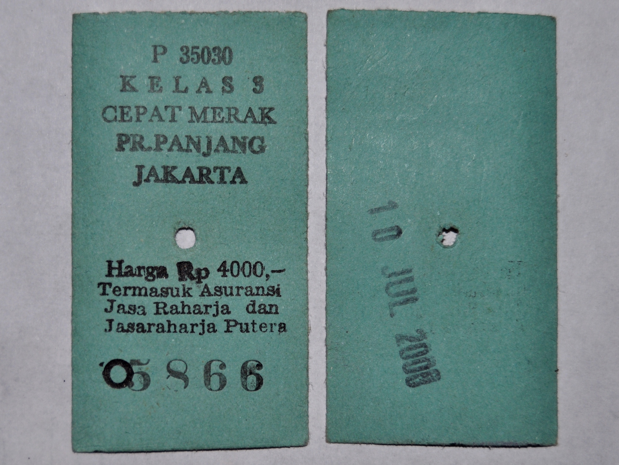 Edmondson ticket of PT KAI (Indonesian State Railway) Jakarta. Route of Parungpanjang (Banten) - Jakarta, 2008.